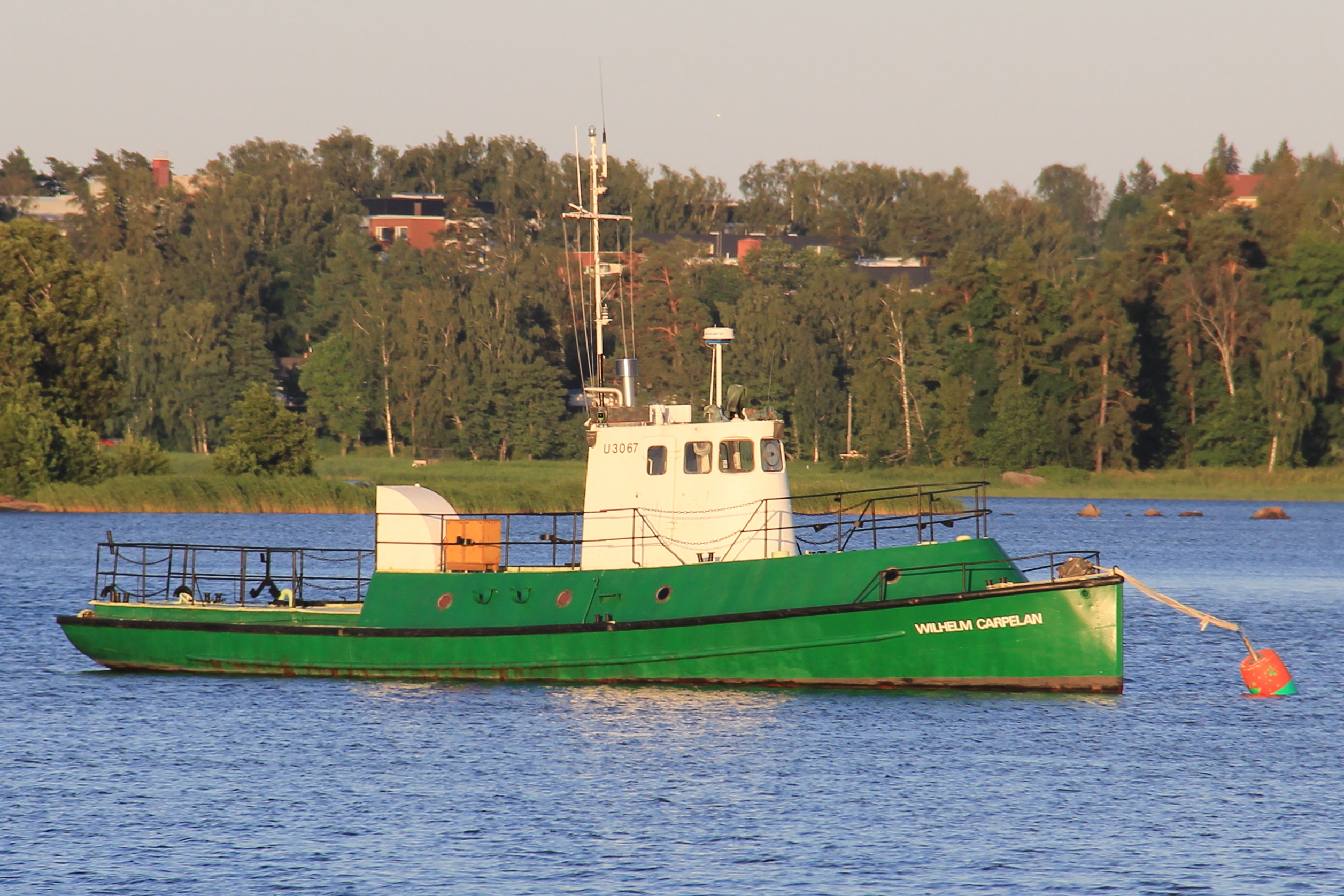 M/S Wilhelm Carpelan, in Keilalahti (bay), Espoo, Finland. July 2012.